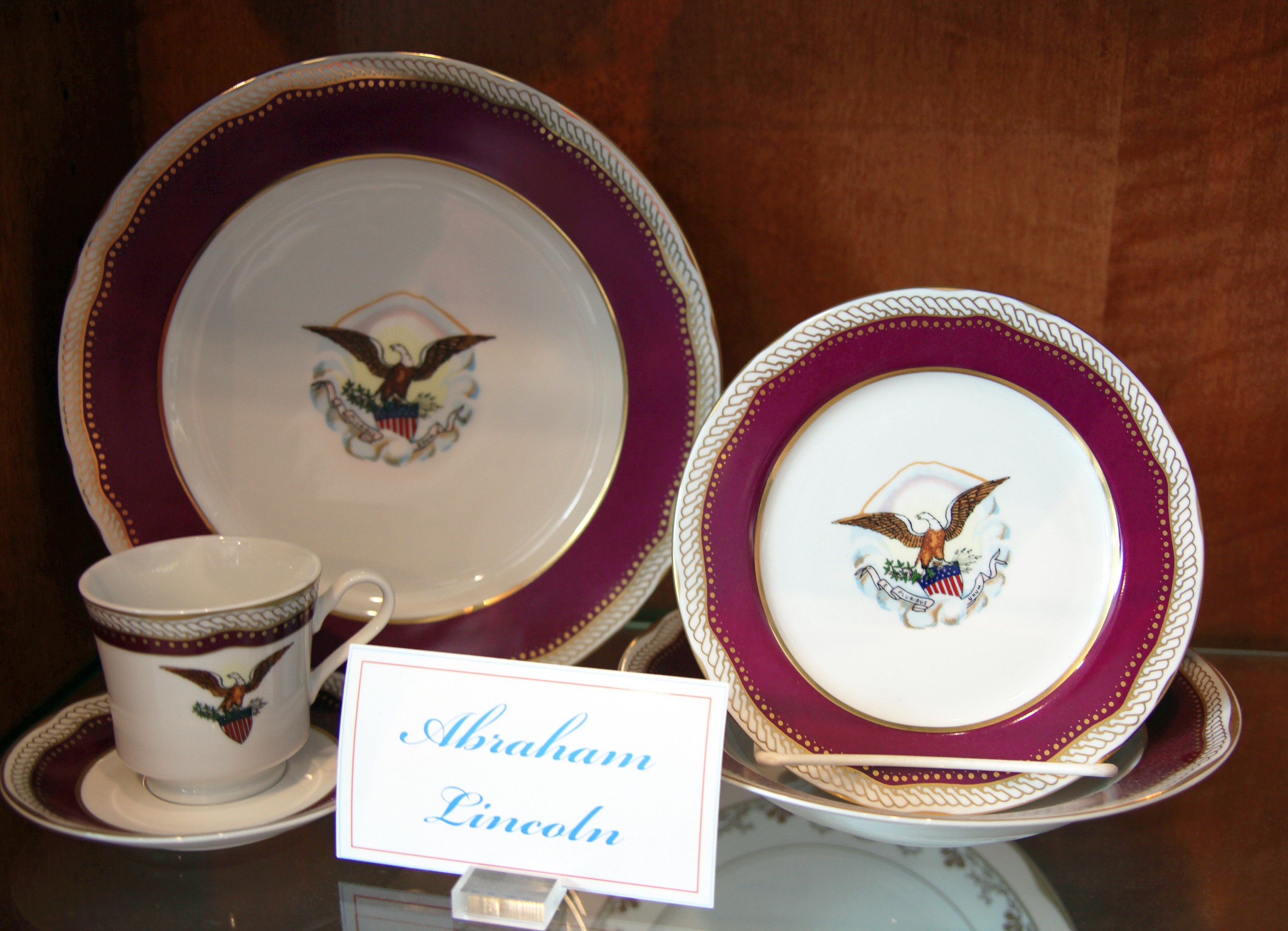 Replicas of the Abraham Lincoln "solferino" china, on sale at the Richard Nixon Presidential Library and Museum in Yorba Linda, California.